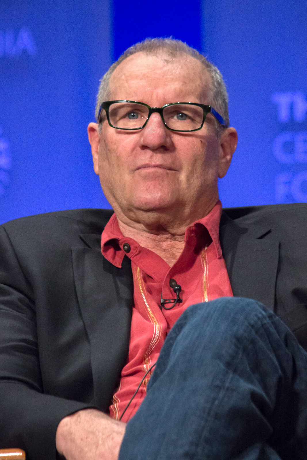 Actor Ed O'Neill at the 2015 PaleyFest for the show "Modern Family"